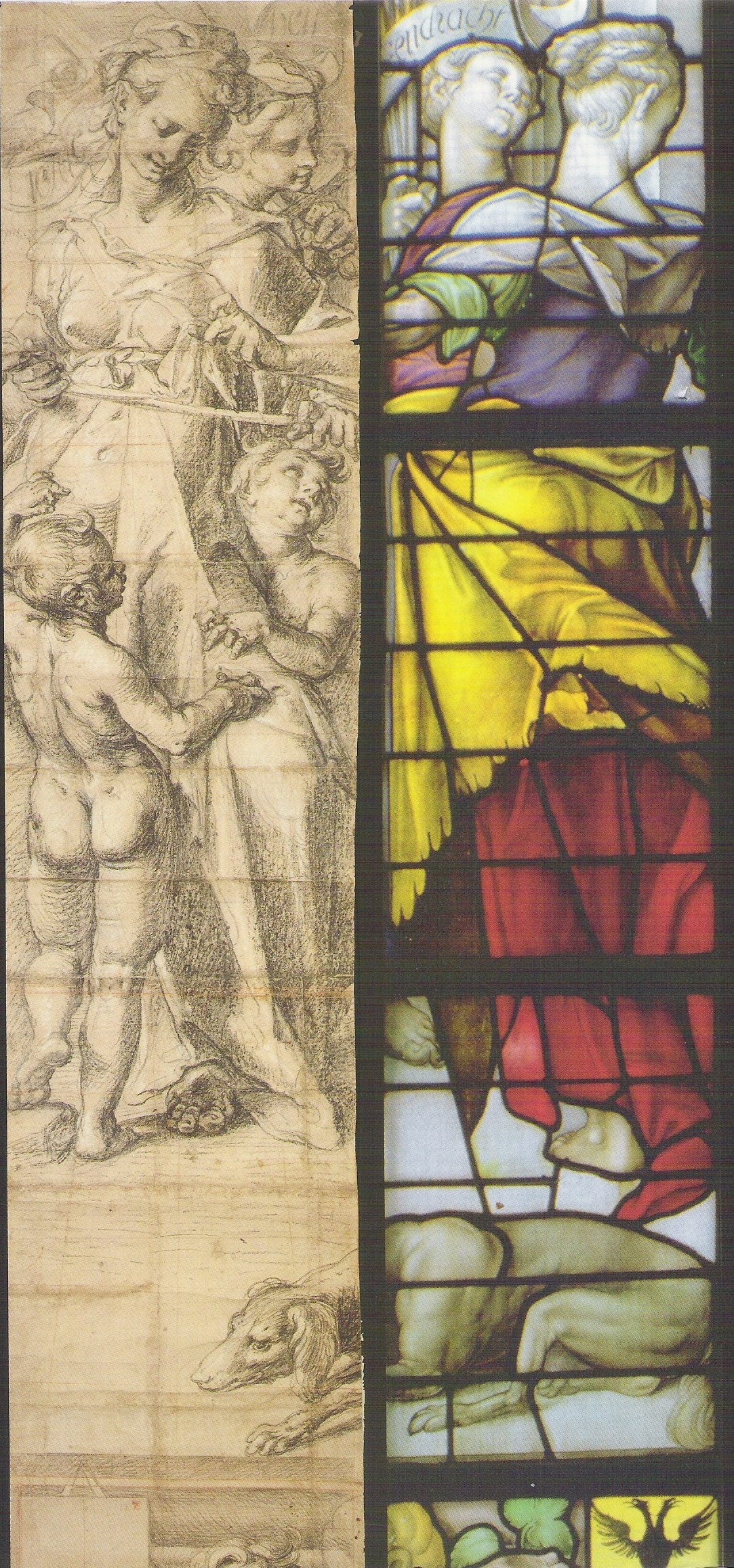 Cartoon drawing by Joachim Wtewael (detail) next to photo of Glass 1 in the Janskerk, Gouda made by Adriaan Gerritsz de Vrije, scanned from the cover illustration "Het geheim van Gouda: de cartons van de Goudse glazen", Zsuzsanna van Ruyven-Zeman, Xander van Eck and Henny van Dolder-de Wit, Zutphen (Walburg Pers) 2002, ISBN 9057301679